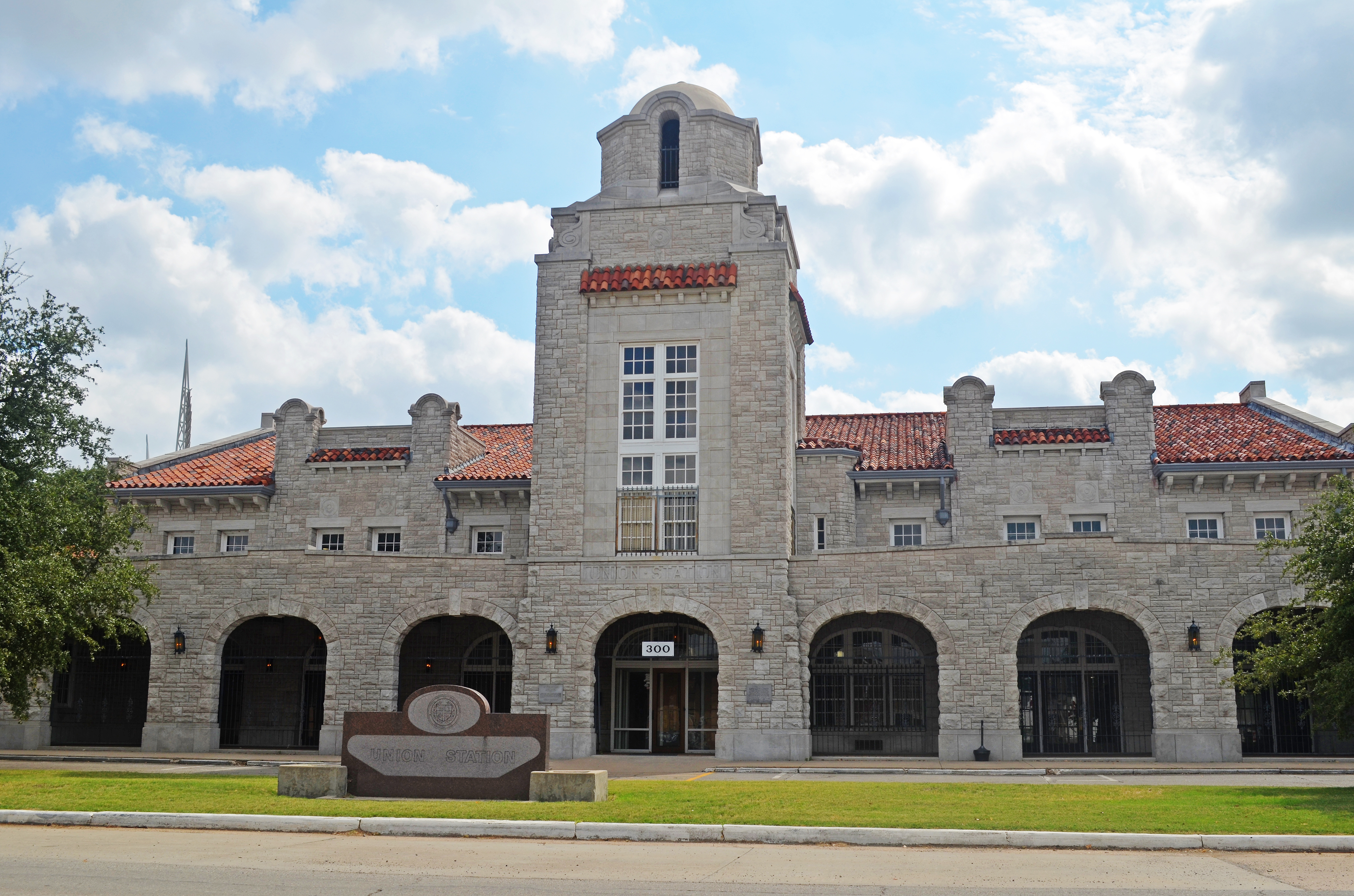 Union Depot